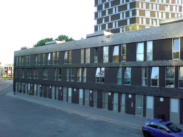 The district De Bisschoppen in Utrecht, the Netherlands.